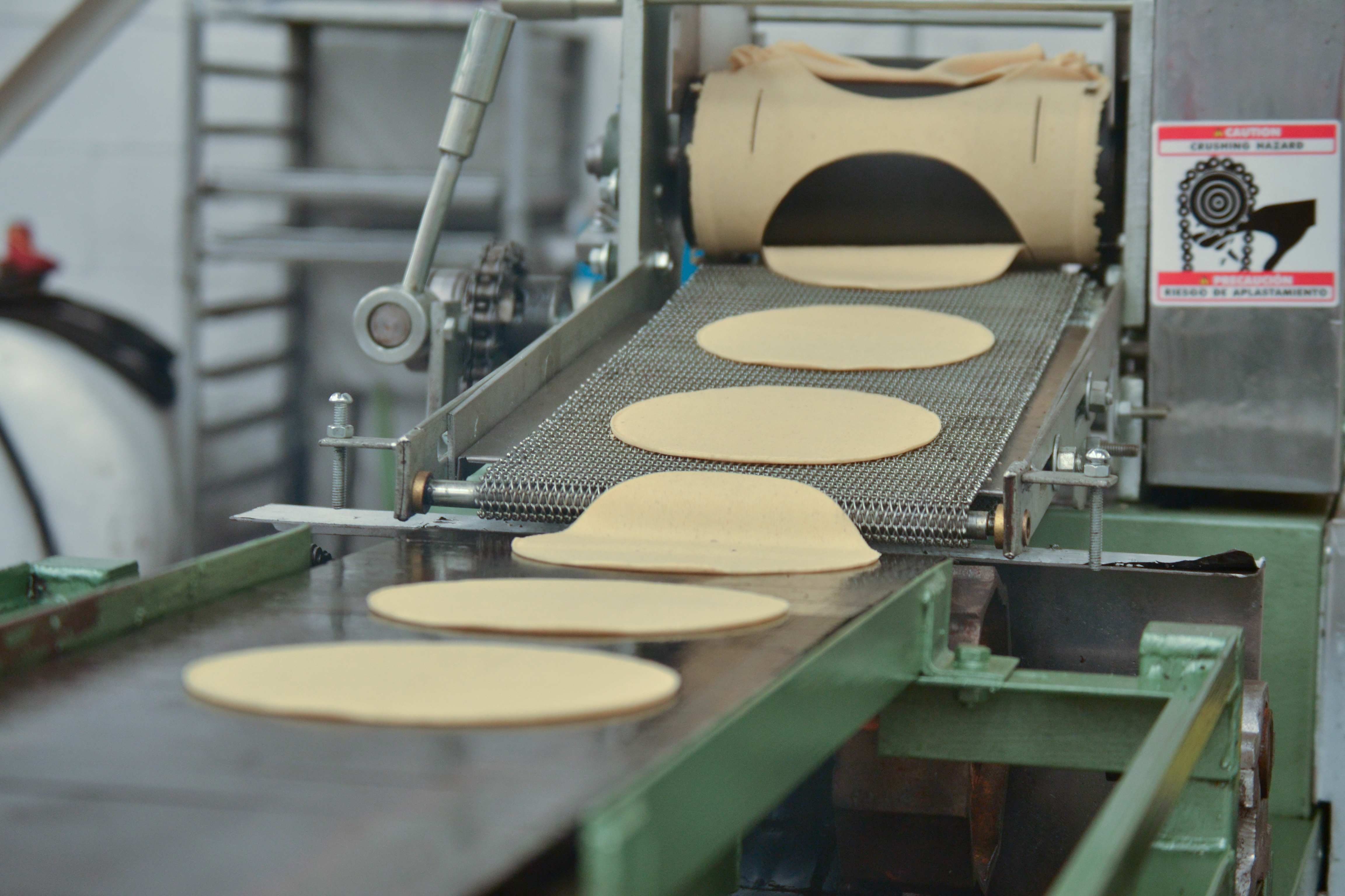 Tortilla making production line in Mexico